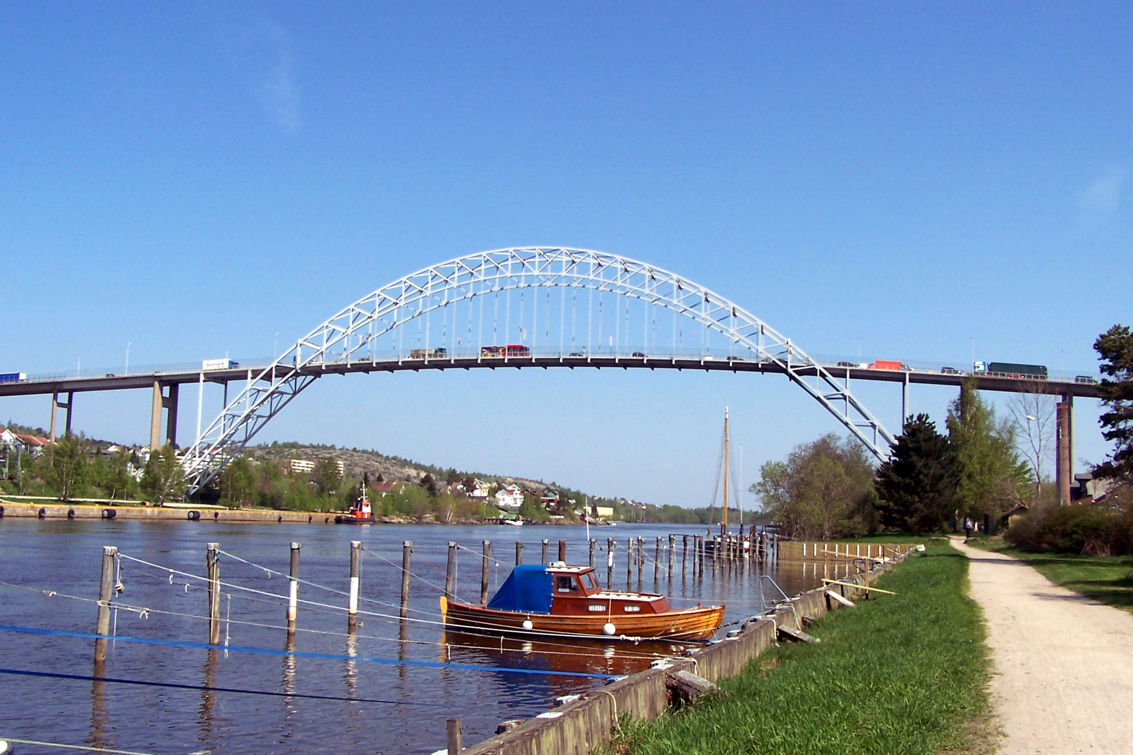 Bridge across River Glomma in Fredrikstad, Norway